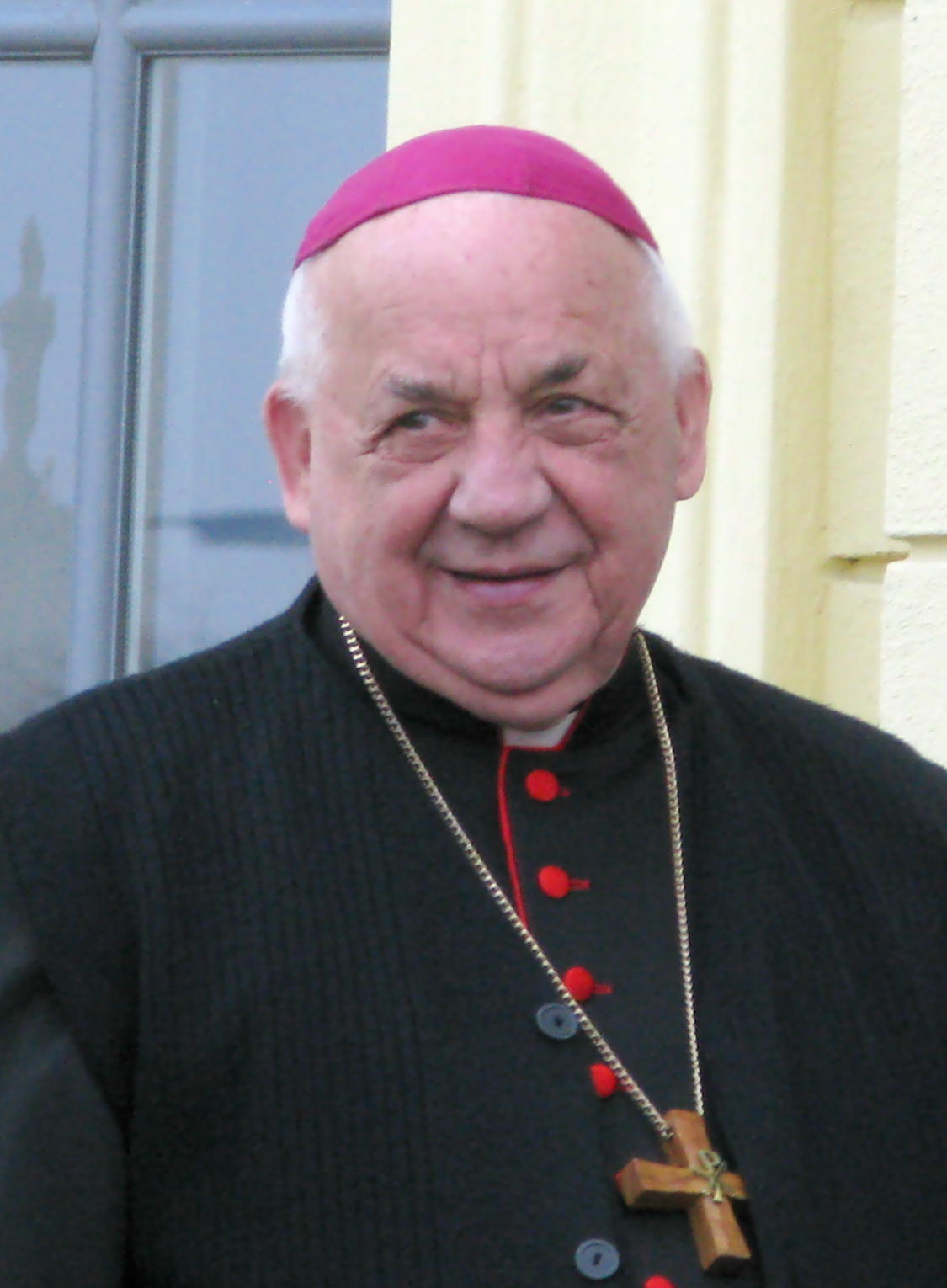 Stanisław Szymecki Bishop-emeritus of Białystok